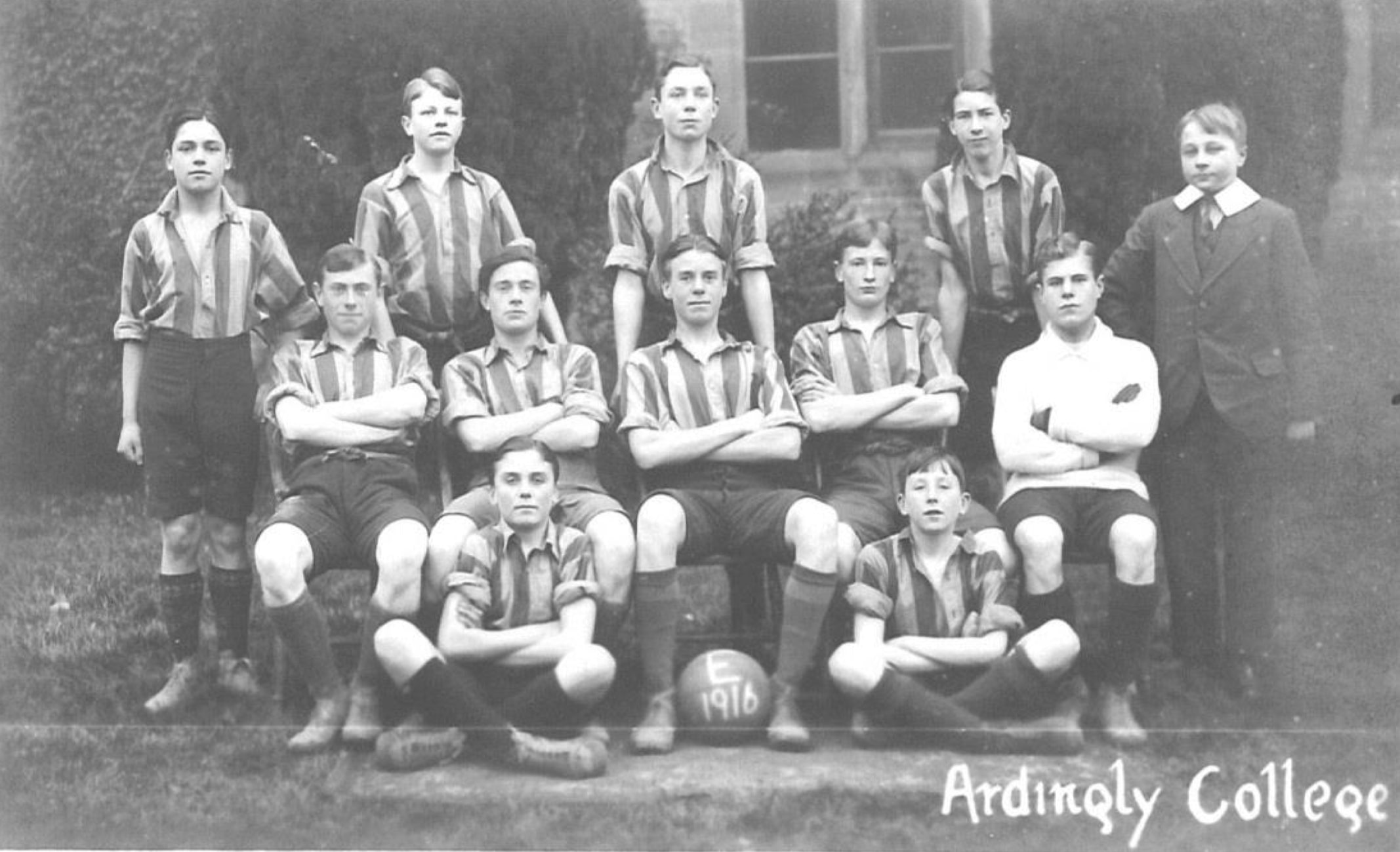 Ardingly College "E Dormitory" football team.